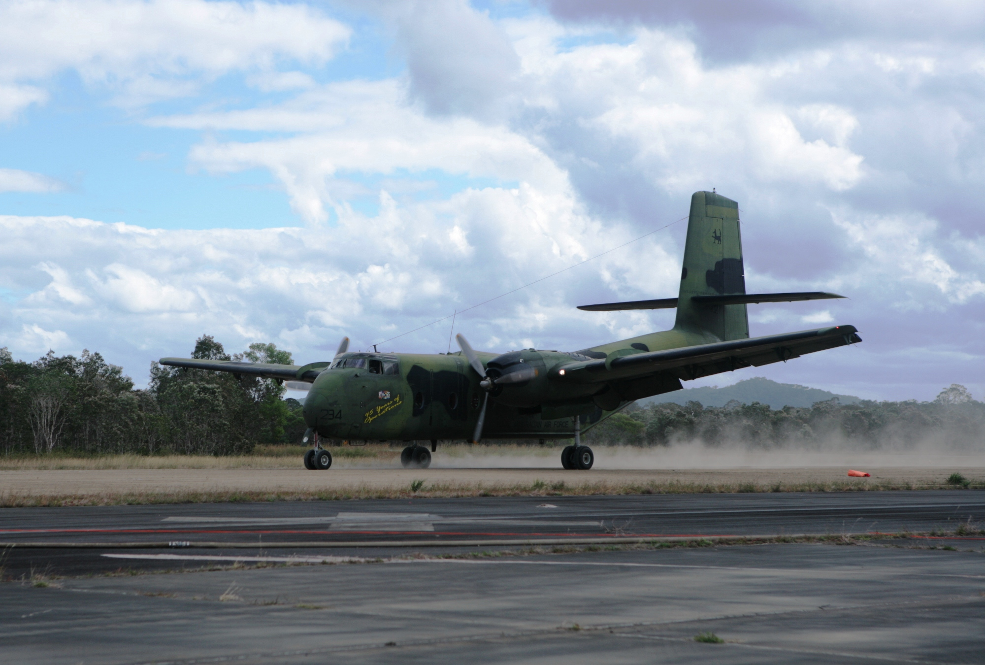 An Australian DHC-4 Caribou tactical transport aircraft arrives at Samuel Hill Airfield during Exercise Talisman Sabre 2009.